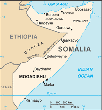 Small map of Somalia, 2011.